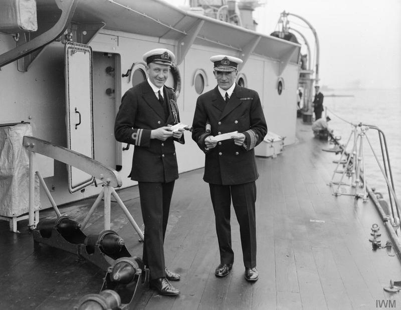 The Royal Navy on the Home Front, 1914-1918 Commodore Reginald Yorke Tyrwhitt and Lieutenant Floyer onboard the Royal Navy's light cruiser HMS Centaur.